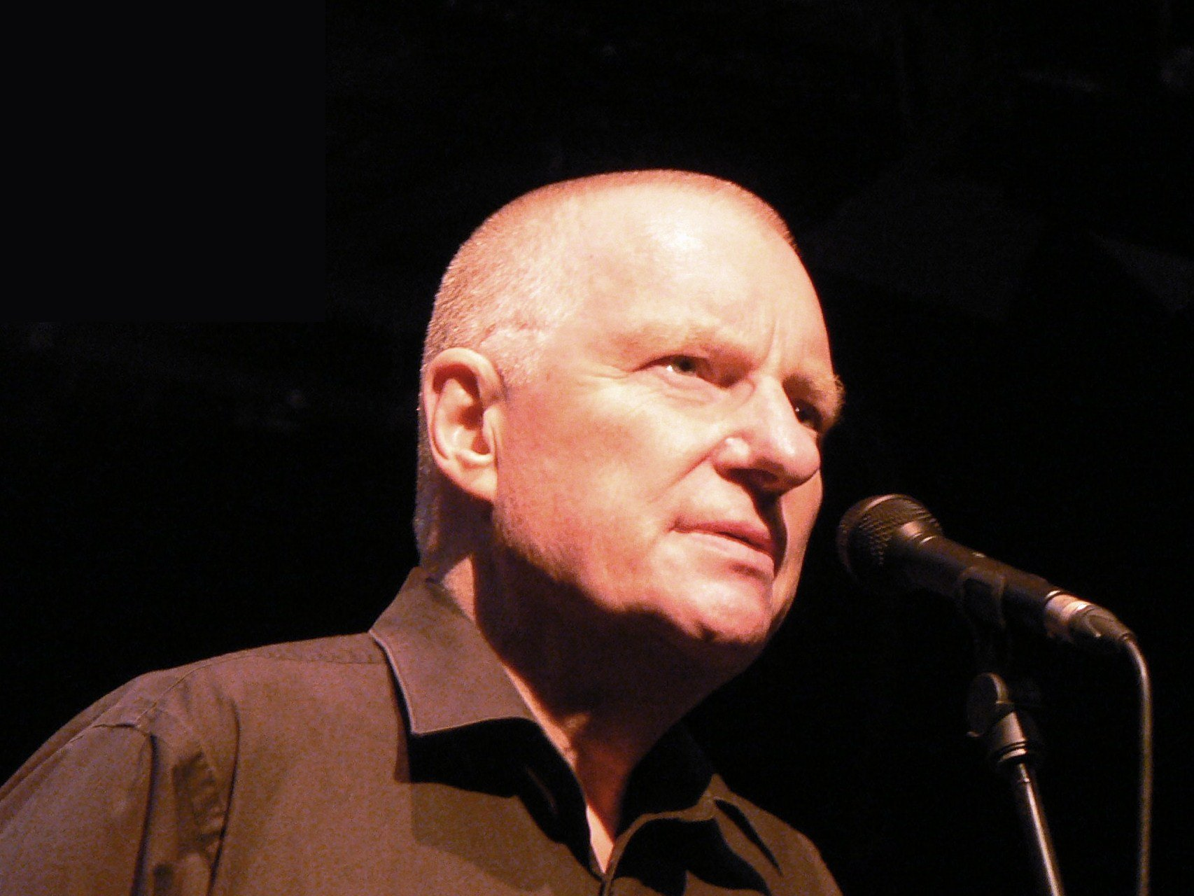 Mike Westbrook performing at his William Blake Project, "Glad Day", with Phil Minton and orchestra at Toynbee Studios in London on 2008-12-06.